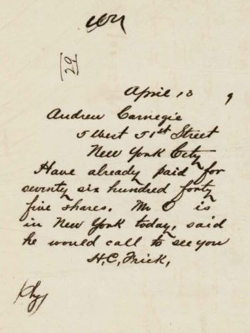 a scanned image of correspondence from Henry Clay Frick to Andrew Carnegie concerning stock purchases